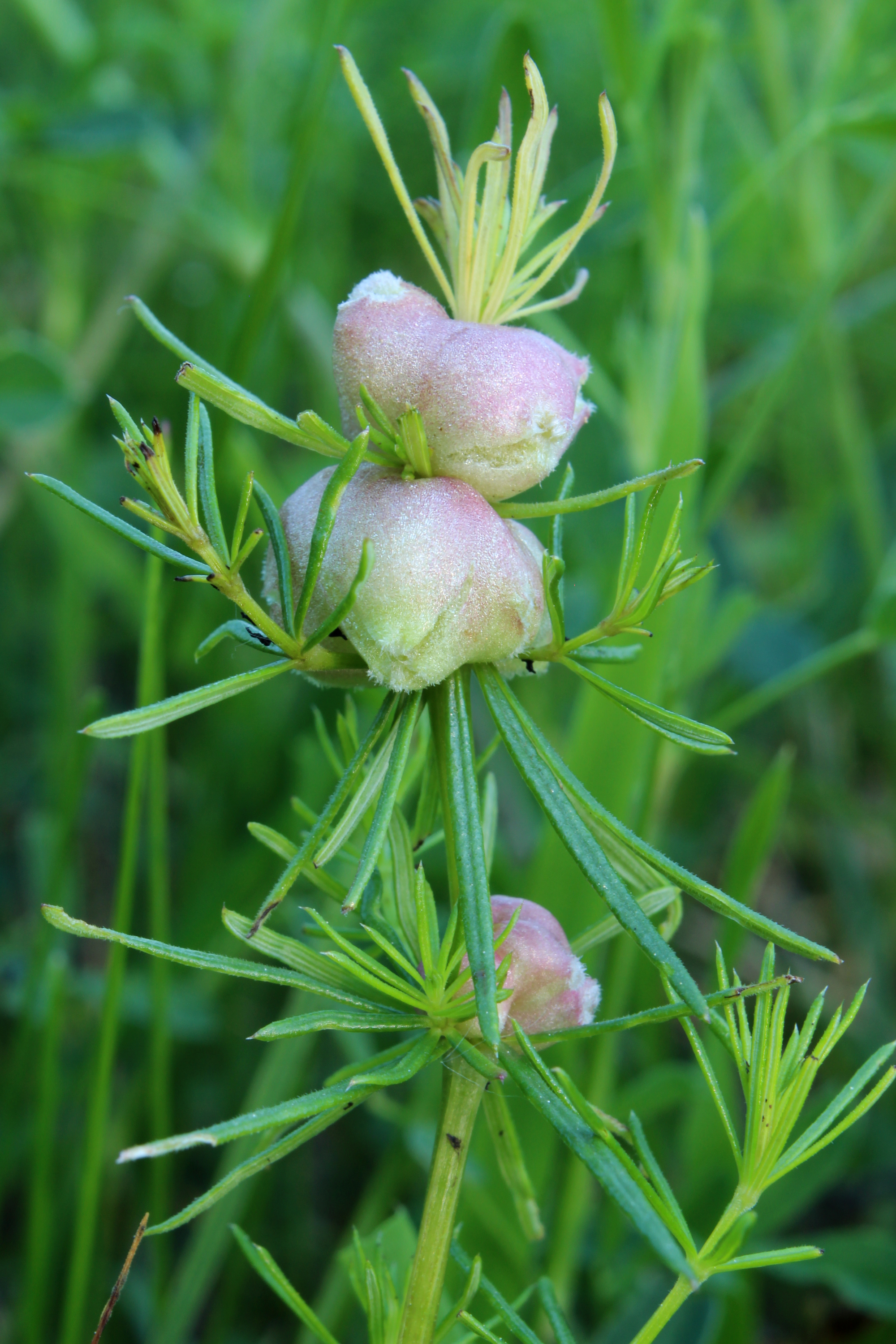 Gall: Geocrypta galii on Galium sp., Location: Germany, Erbach, Ringingen